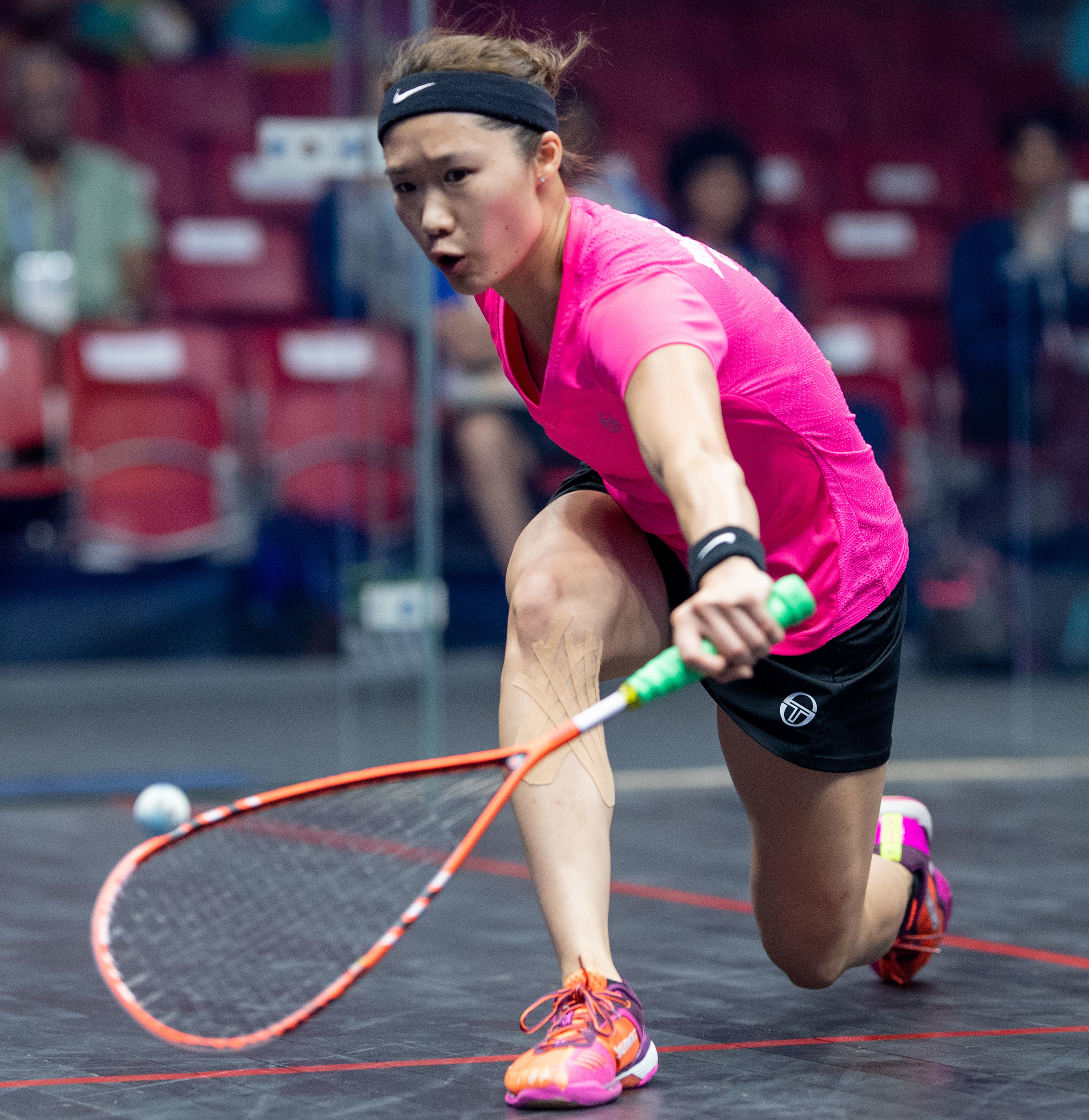 During 2018 Asian Games